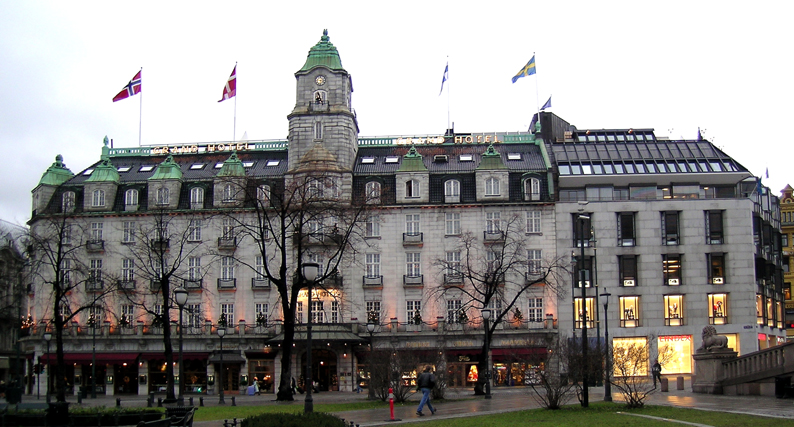 Grand hotell, Oslo. Oldest part rebuilt in present shape 1911-1913; architect Ole Sverre. Newer wing in Rosenkrantz gate 1958, in Arbeidergata 1974; architect Fritjof Stoud Platou.